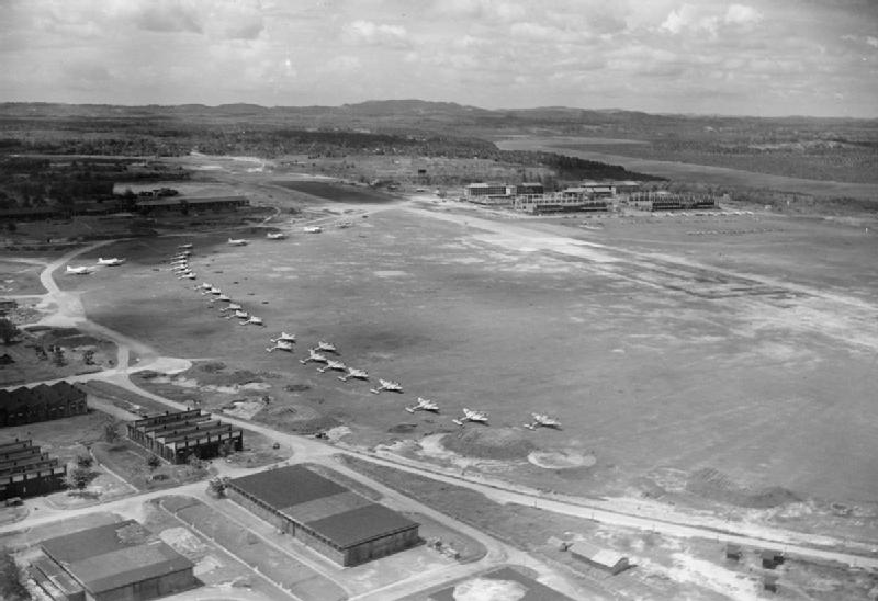 Title: THE ROYAL AIR FORCE IN THE FAR EAST 1945-1946 Collection No.: 4700-18 Description: An aerial view of Seletar airfield, Singapore, with Royal Air Force Mosquito and Dakota aircraft parked up.